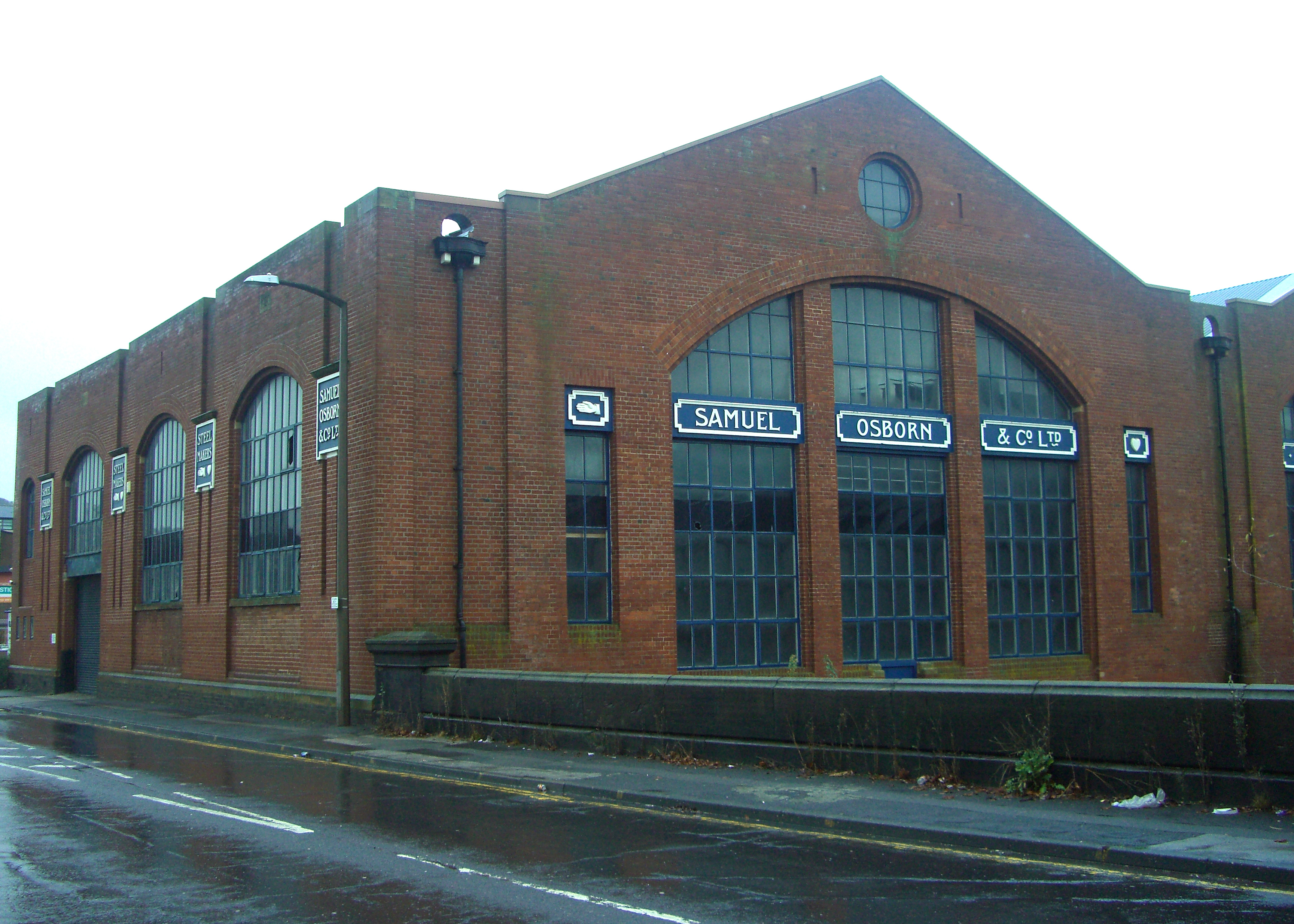 The Insignia Works at Neepsend in Sheffield, England